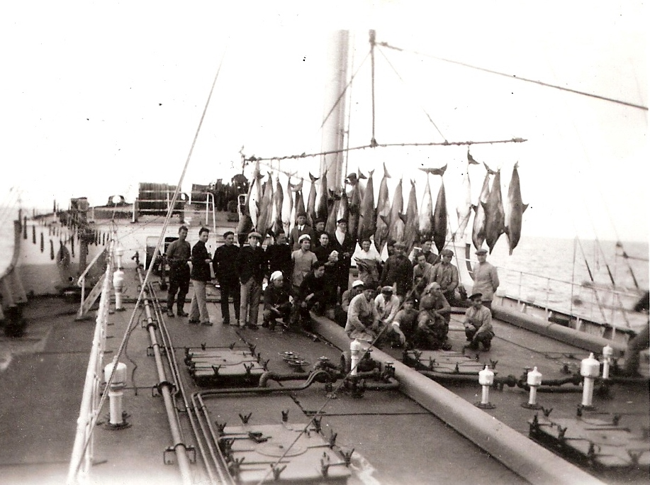 Dolphin fishing - Black Sea - 1933. Image by Admiral Ernesto Burzagli (1873-1944). The original picture, scanned by Emiliano Burzagli, belongs to the Private archive of Burzaghi family, Italy.